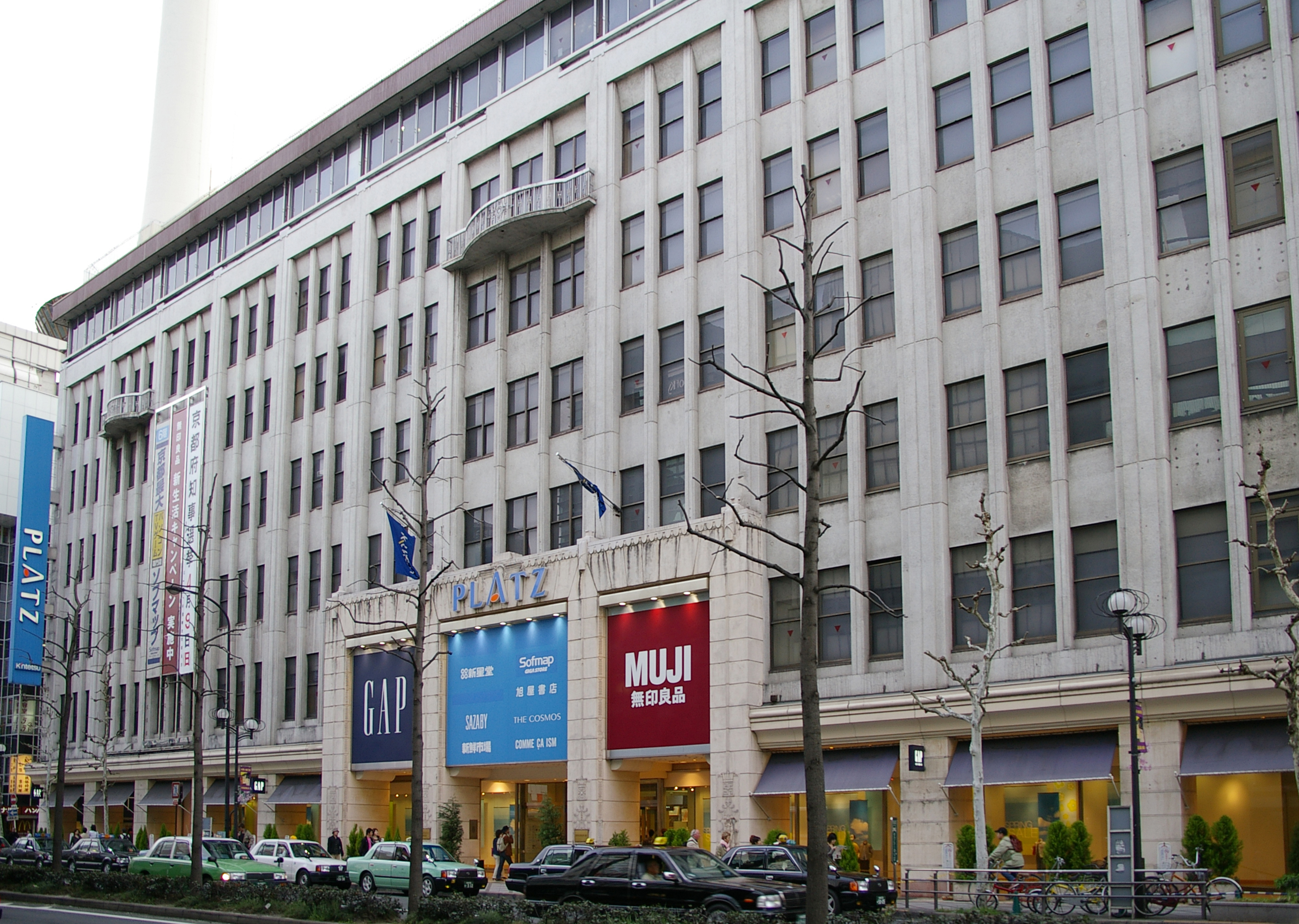 Photograph of Kintetsu Department Store Kyoto Branch "Platz Kintetsu" in Shiomogyo-ku, Kyoto, Kyoto Prefecture, Japan.